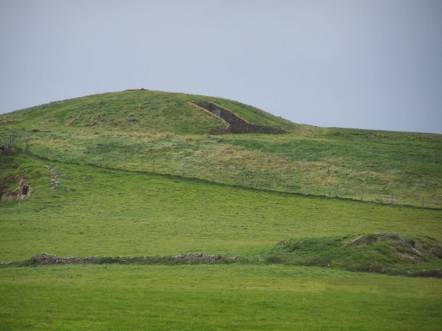 Barclodiad-y-Gawres Chambered Cairn A view of the Cairn from the A4080 looking SW.